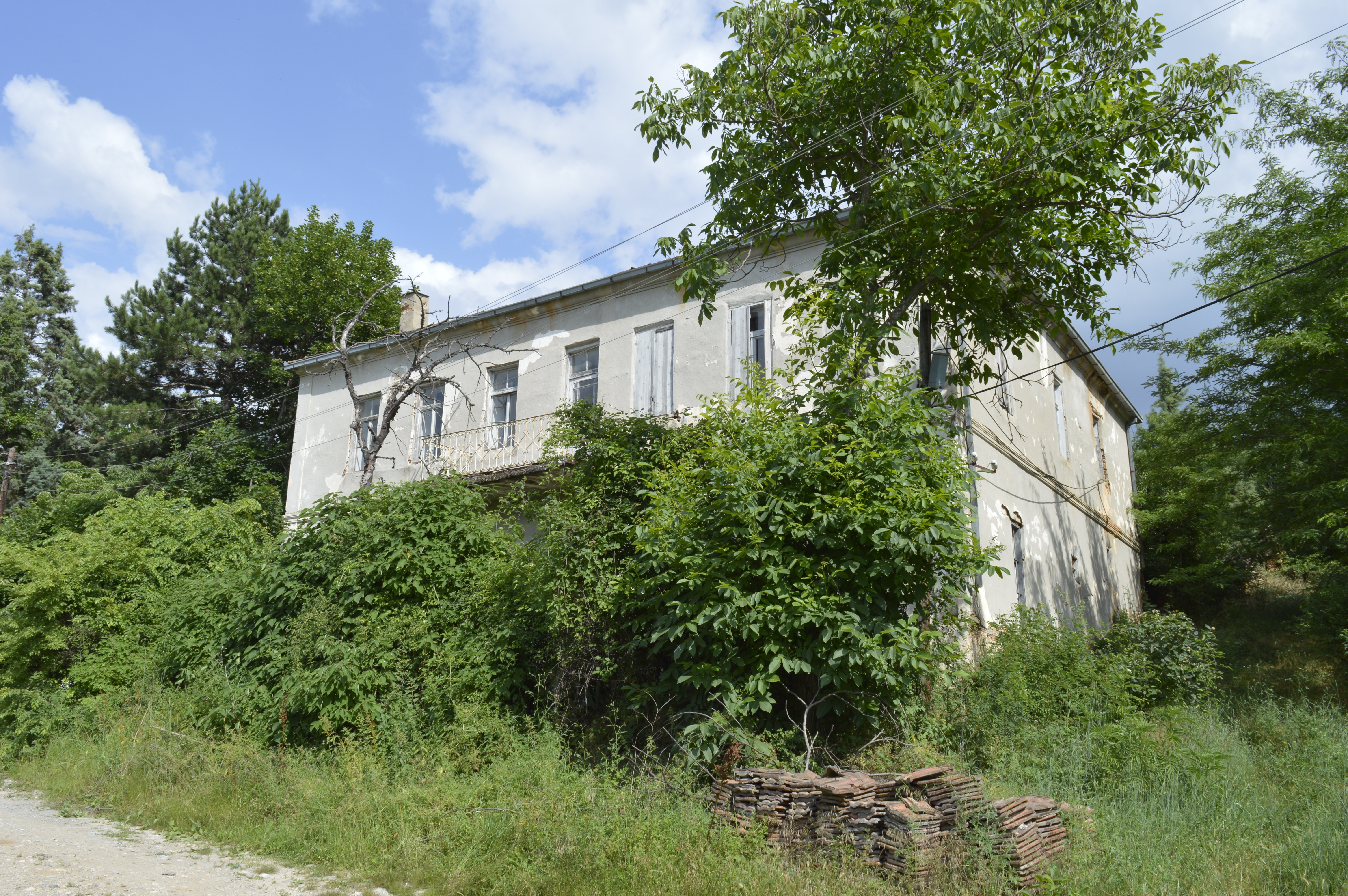 Memorial house of Kole Nedelkovski in the village Vojnica